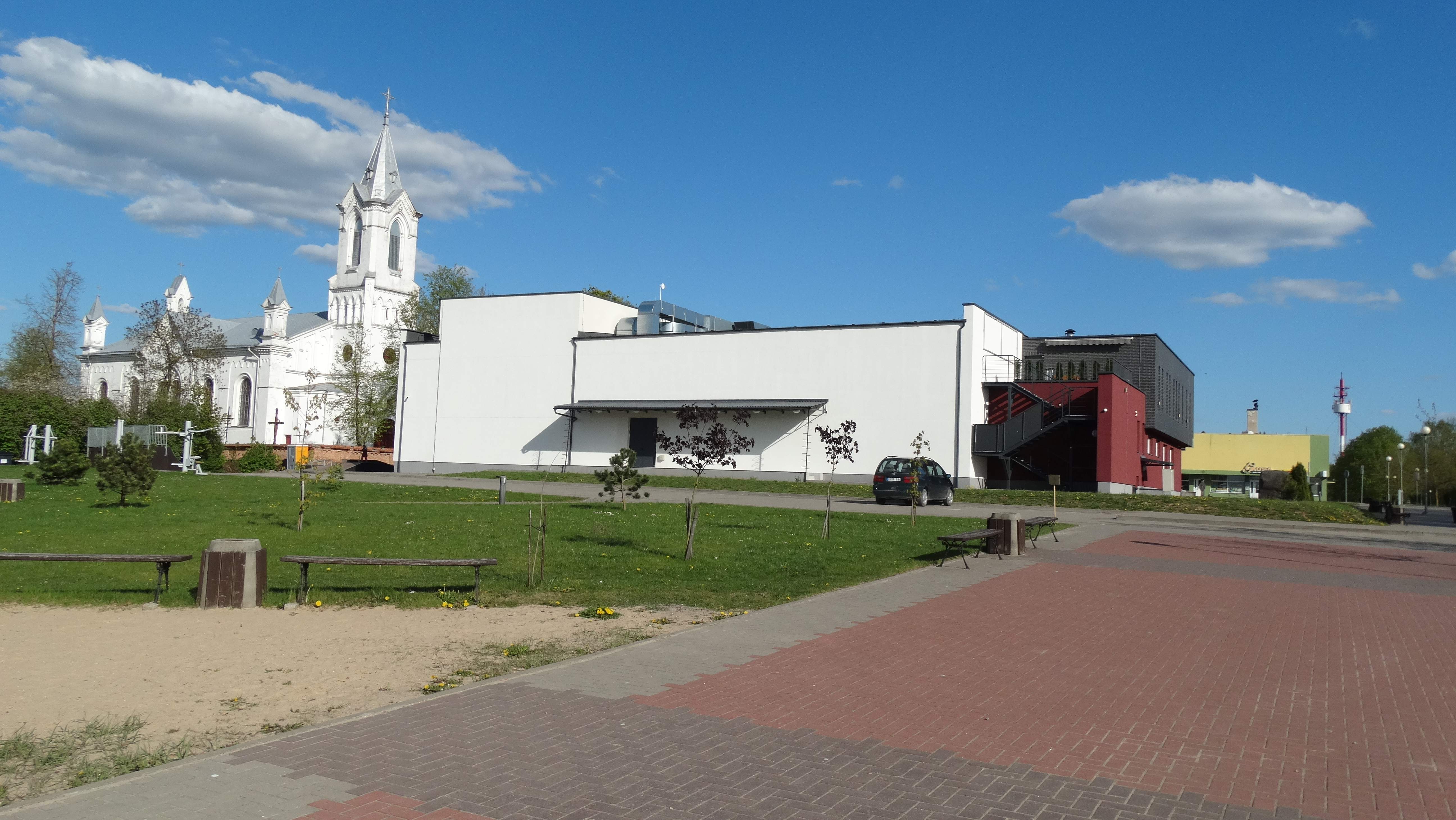 Baisogala, Radviliškis District, Lithuania